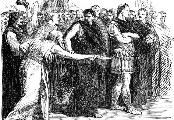 Beware the Ides of March: Soothsayer warning Julius Caesar of the Ides of March - the day on which he was assassinated. Illustration for 'Julius Caesar' from an edition of William Shakespeare's works published 1858. Wood engraving